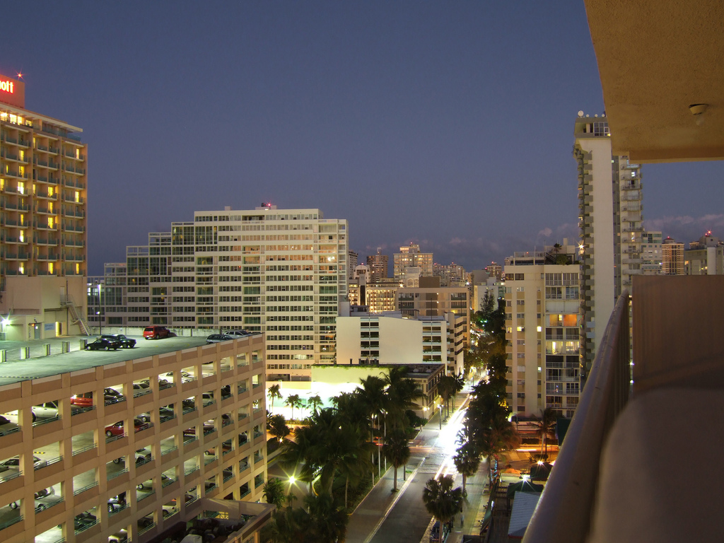 Ashford Avenue San Juan, PR